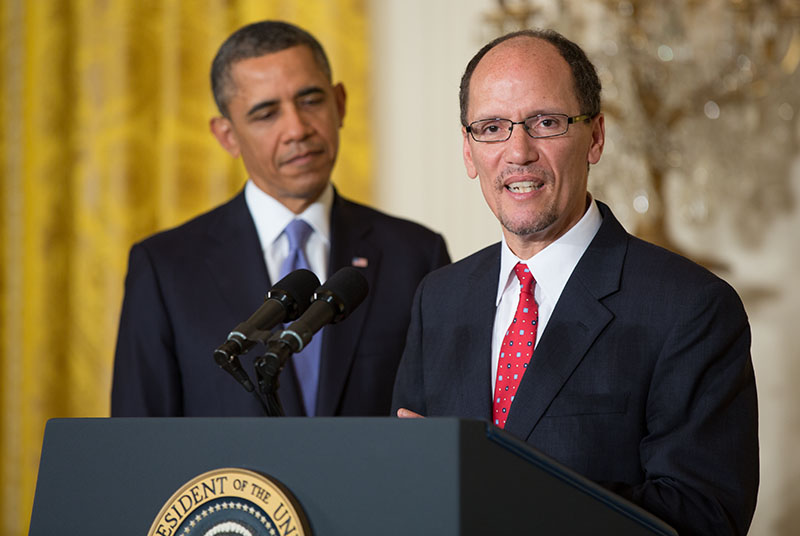 Assistant Attorney General for Civil Rights, Thomas Perez after being nominated by President Barack Obama to serve as the United States Secretary of Labor.